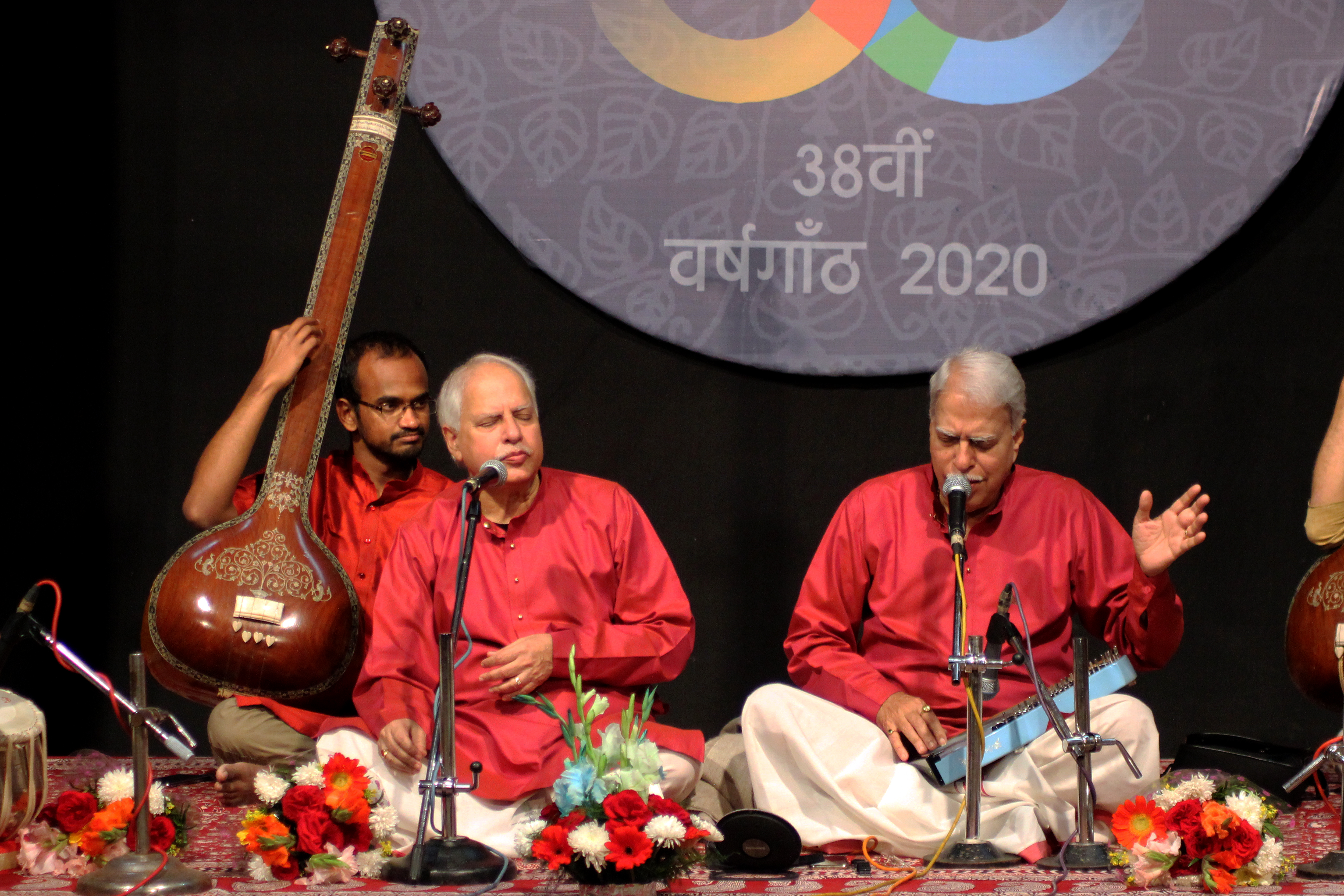 Pandit Rajan Sajan Mishra Performing at Bharat Bhavan Bhopal on 38th foundation day 13 February 2020